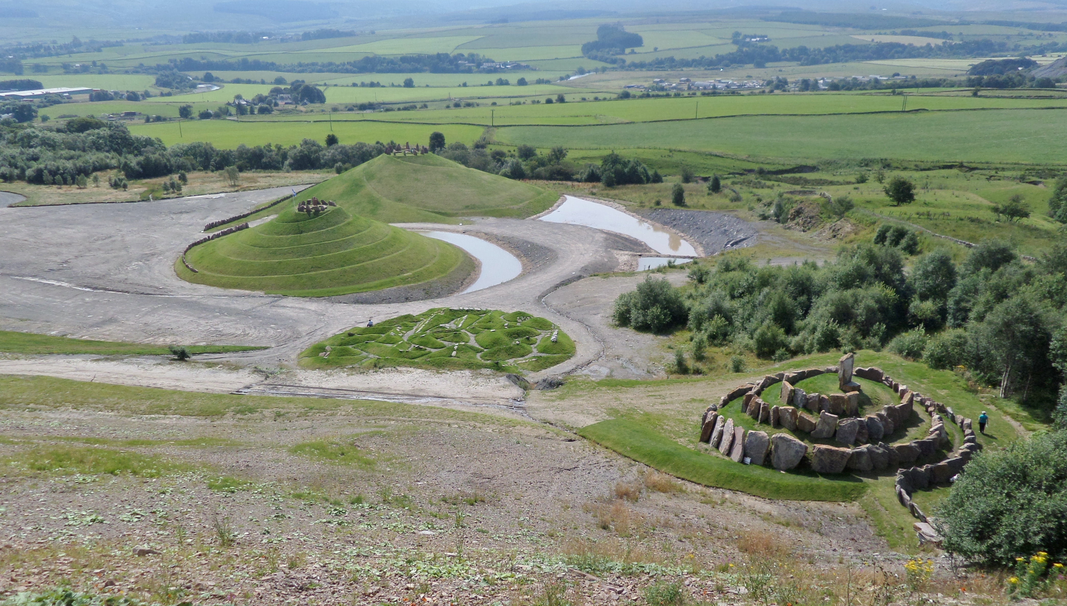 The Multiverse and Galaxies at the Crawick Multiverse, Sanquhar, Scotland.